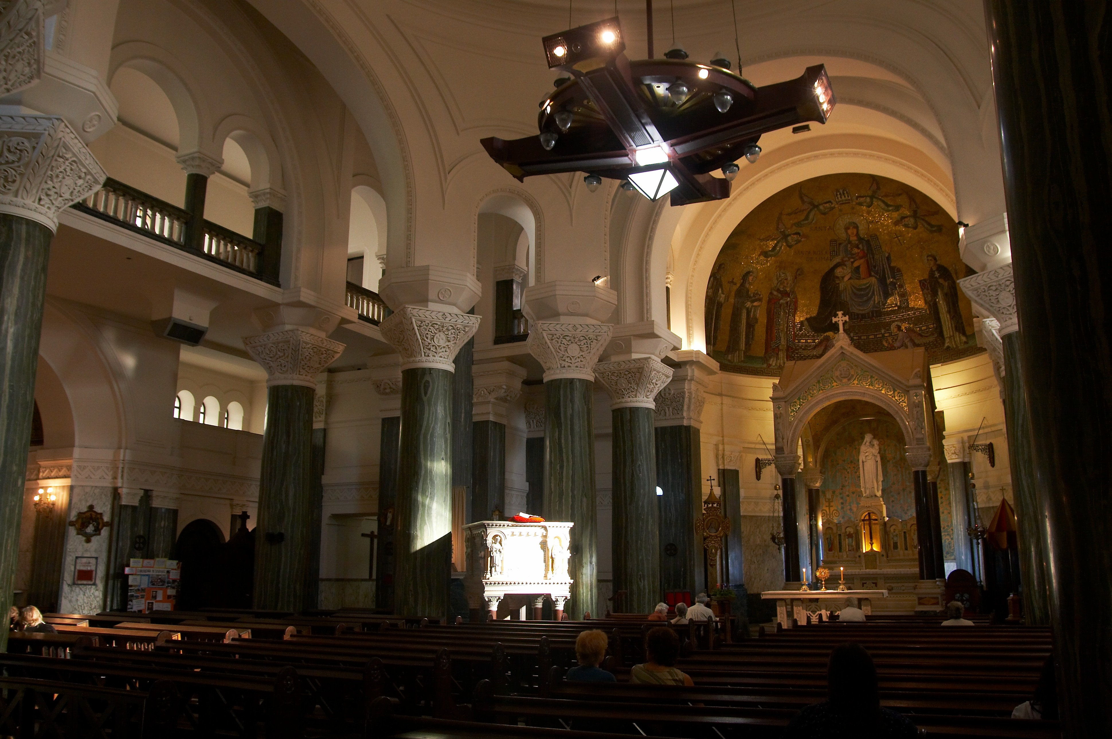 Santa Rosa de Lima basilica, Buenos Aires, Argentina.